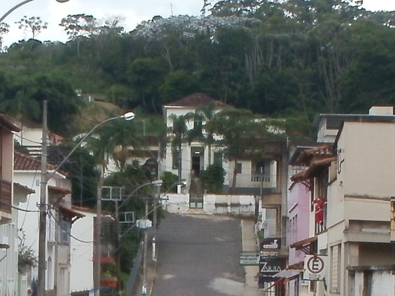 View of Lima Duarte (Minas Gerais, Brazil) City Hall.